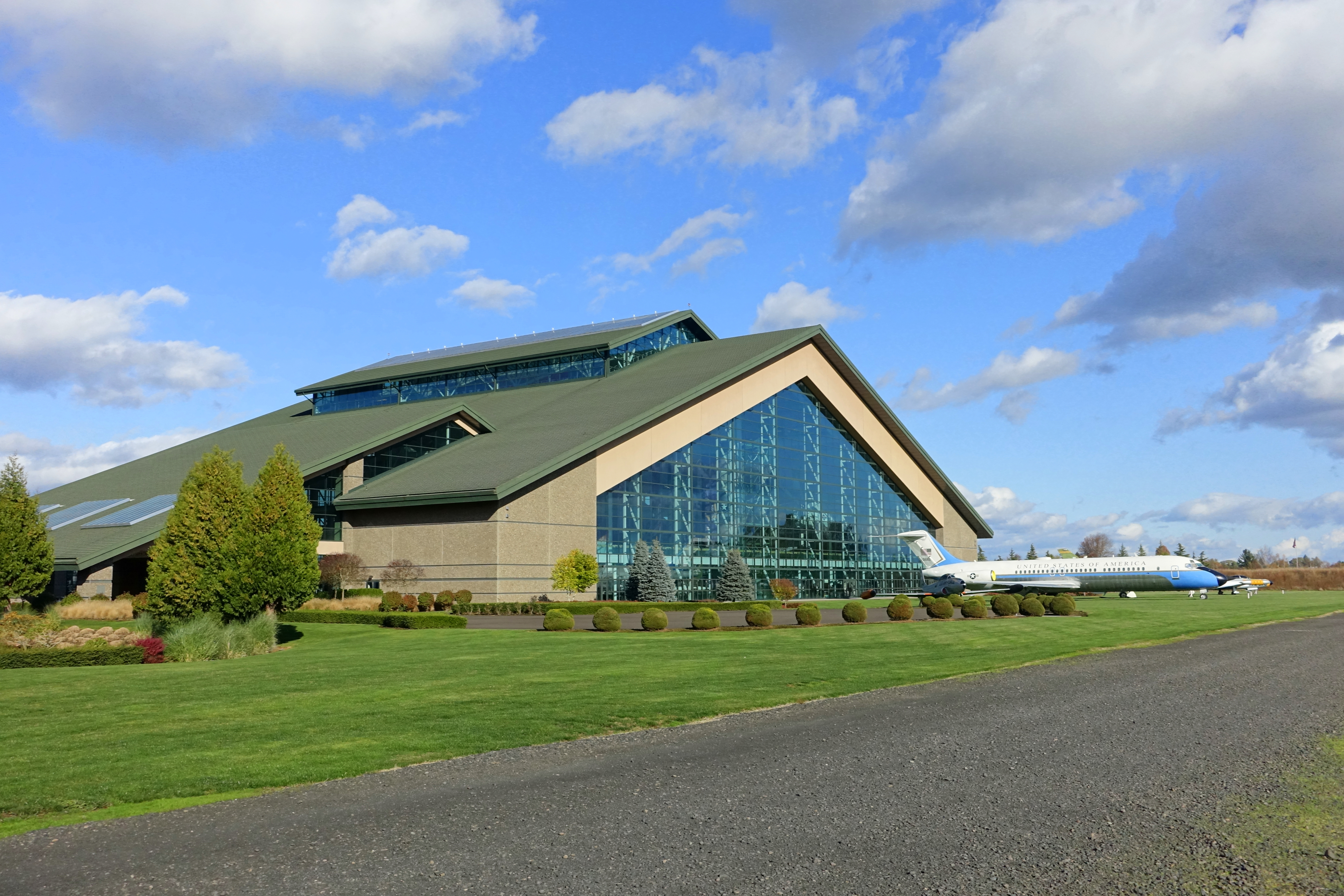 Exhibit at the Evergreen Aviation & Space Museum - McMinnville, Oregon, USA.